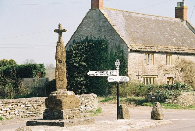 Leigh: the cross A medieval cross with a modern top.